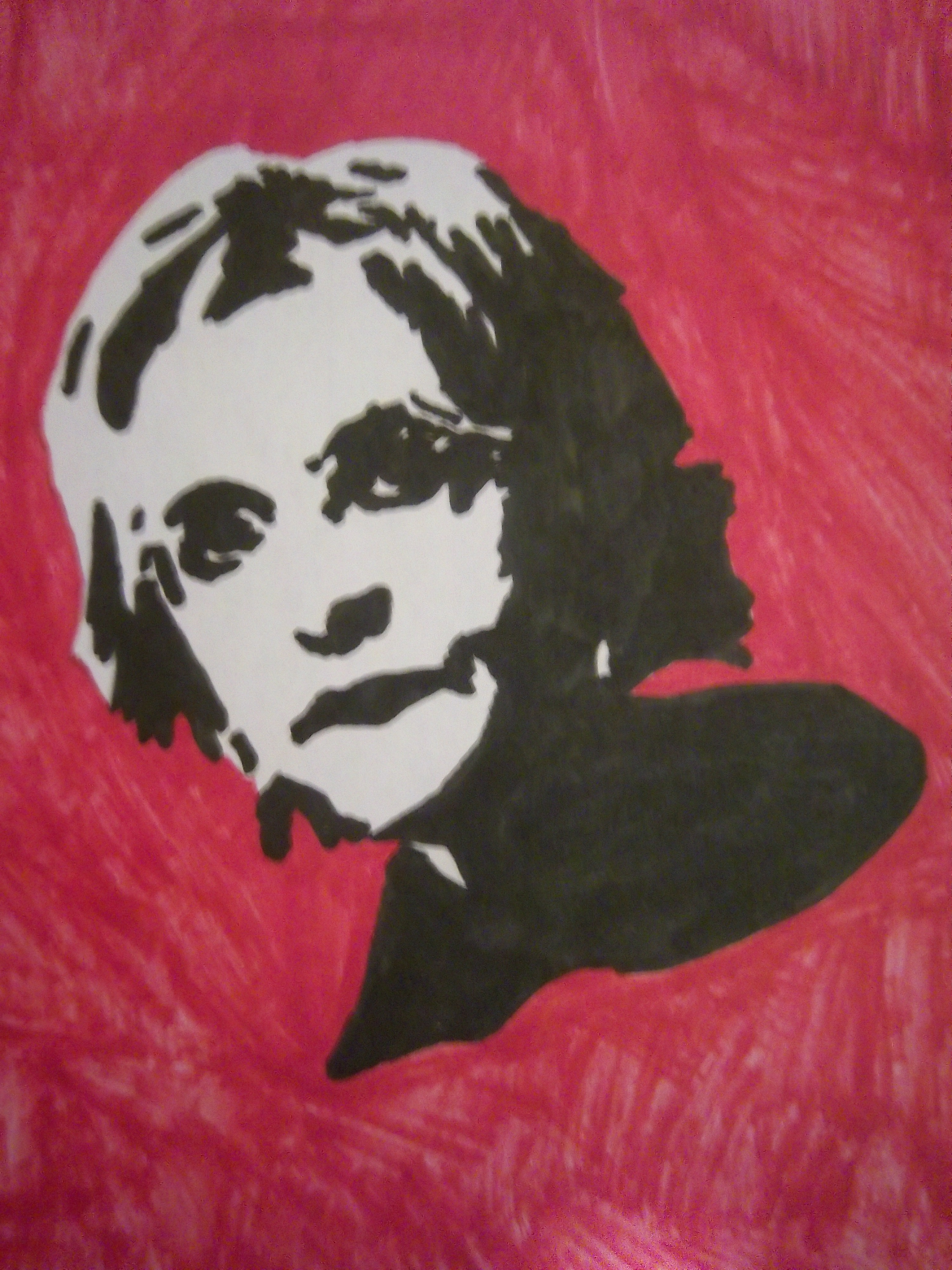 Slavenka Drakulić is a noted Croatian writer and publicist who lives in Sweden. Author-Mirko Savković (MirkoS18 at wiki)